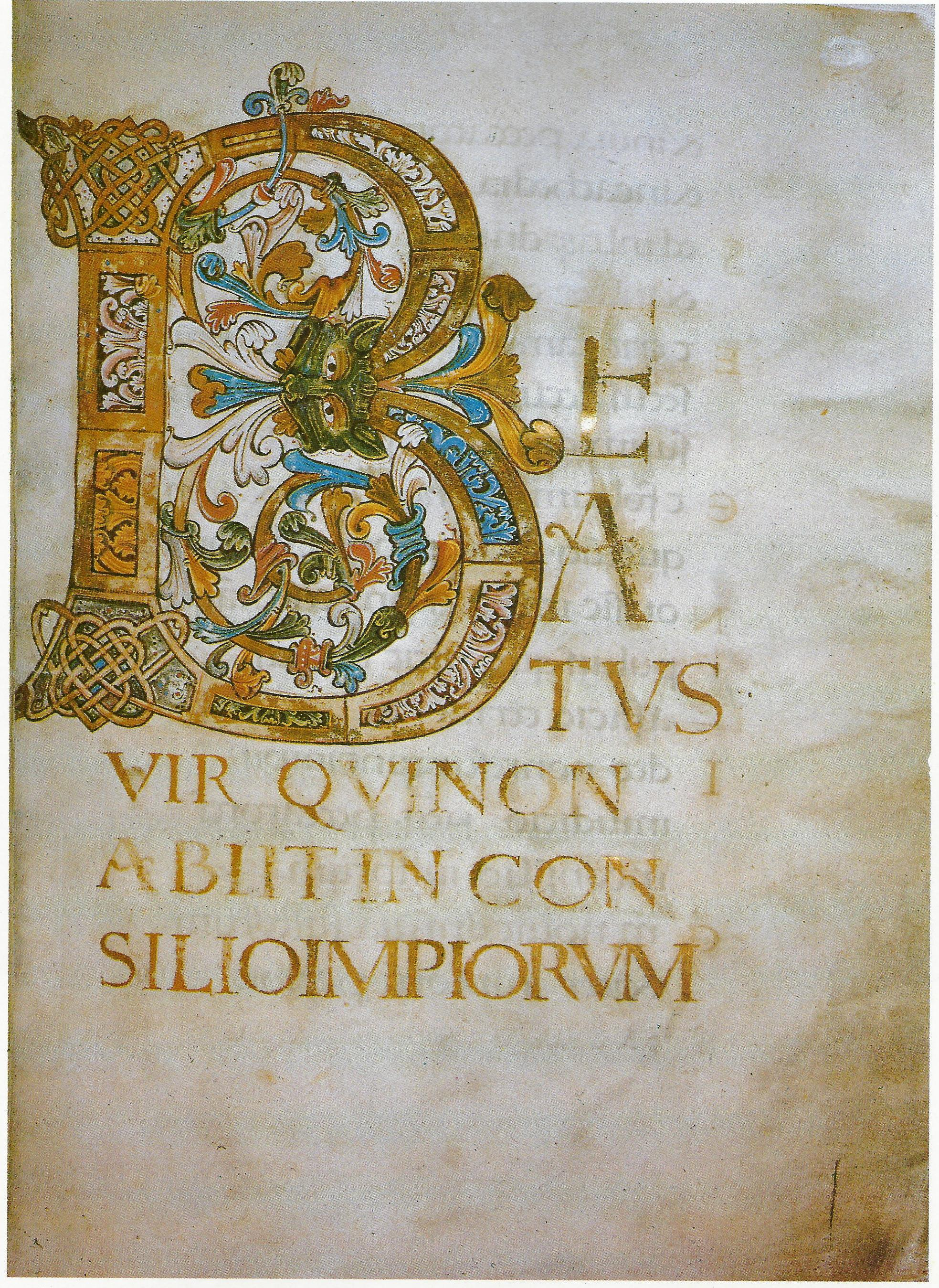 The Ramsey Psalter, BL Harley Ms 2904, Initial B, folio 4, probably designed for the use of Oswald, Archbishop of York, 972-992